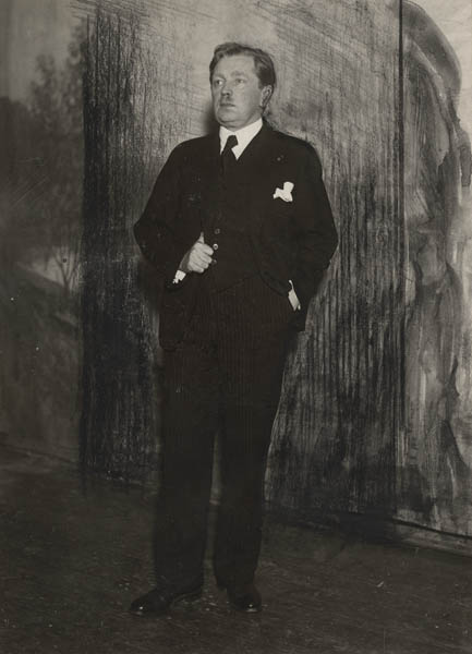 Photograph of the Finnish politician, diplomat and journalist Urho Toivola (1890–1960).